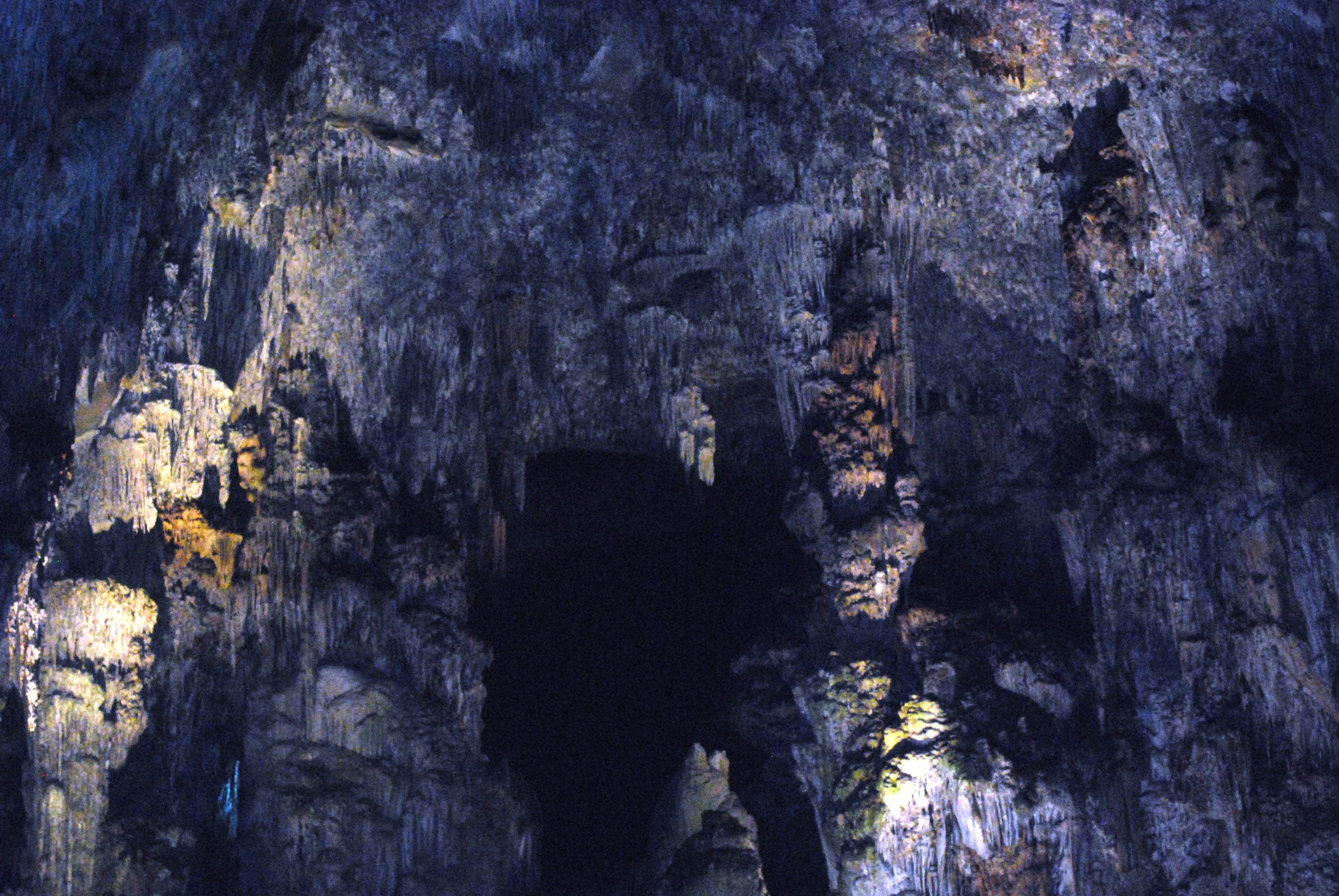 Formations in the Cacahuamilpa Caverns in Guerrero state, Mexico